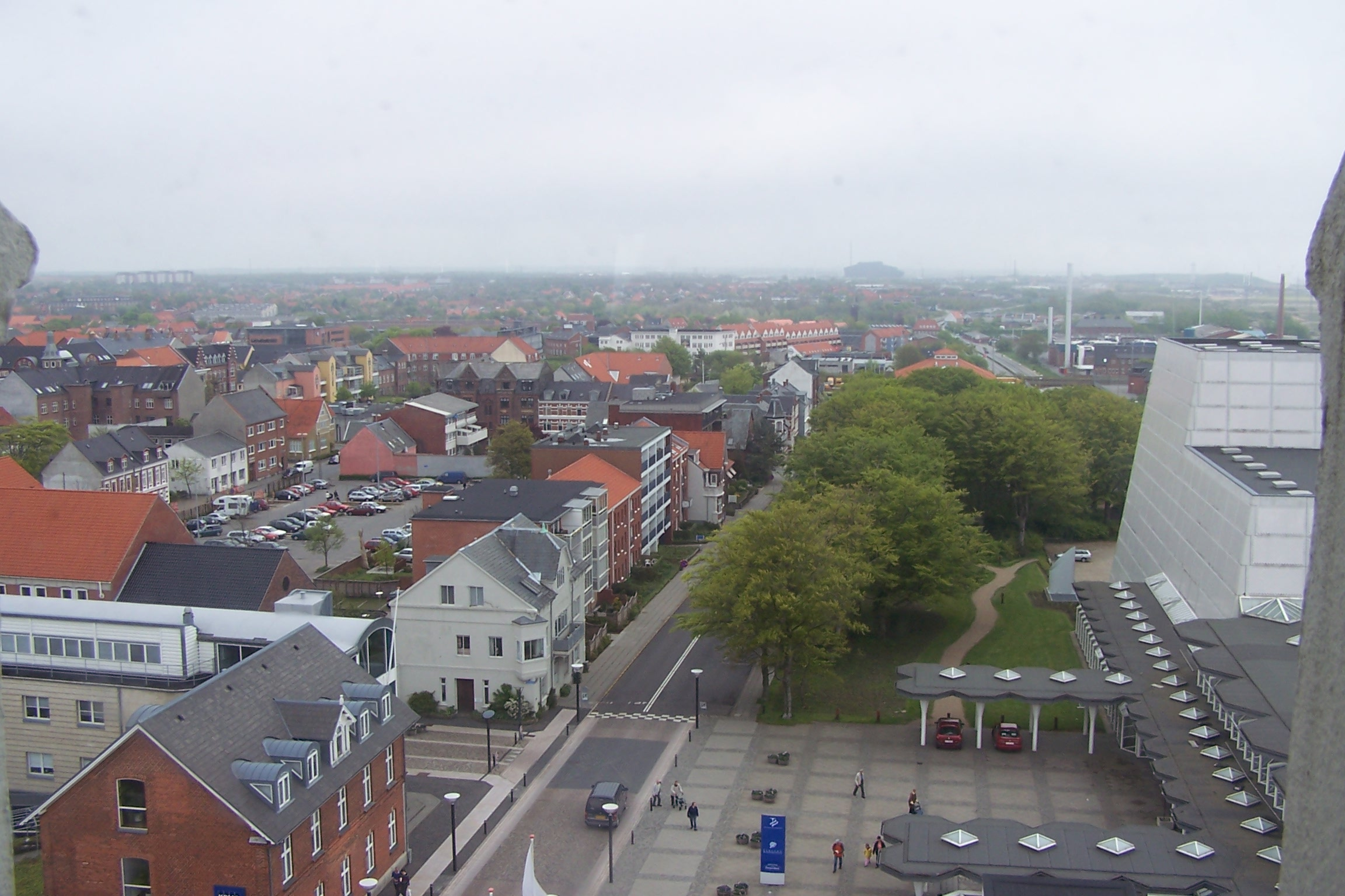 Esbjerg, view of town from watertower. Photo by Cnyborg, May 2005.